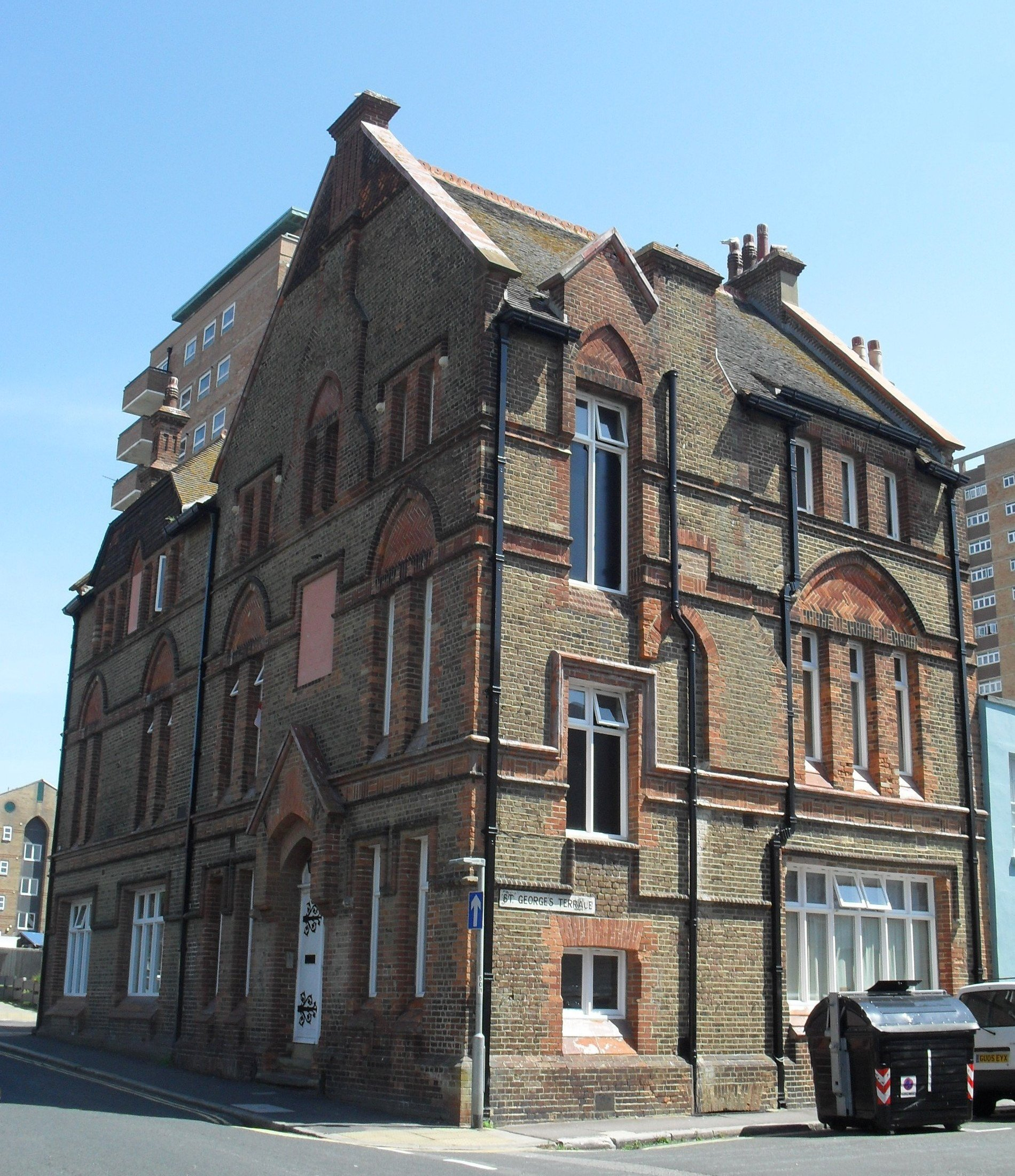 Pelham Institute, Upper Bedford Street, Kemptown, City of Brighton and Hove, England. A working men's club, social venue and hostel, built in 1877 by Thomas Lainson on behalf of the Vicar of Brighton. The style is High Victorian Gothic. It has been converted into flats by a housing association. Listed at Grade II by English Heritage (IoE Code 481395)